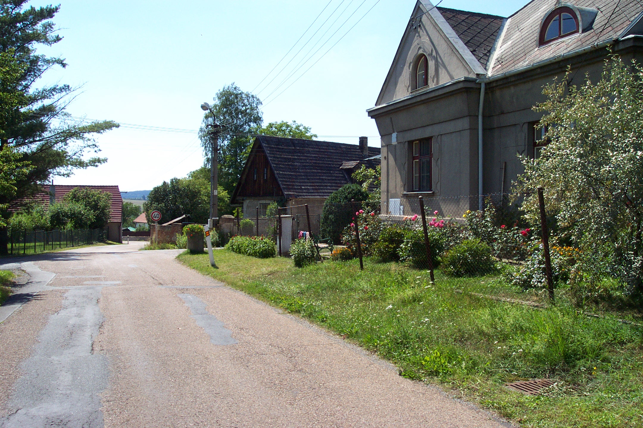 Druztová Klabava in Rokycany district near Plzeň, CZ